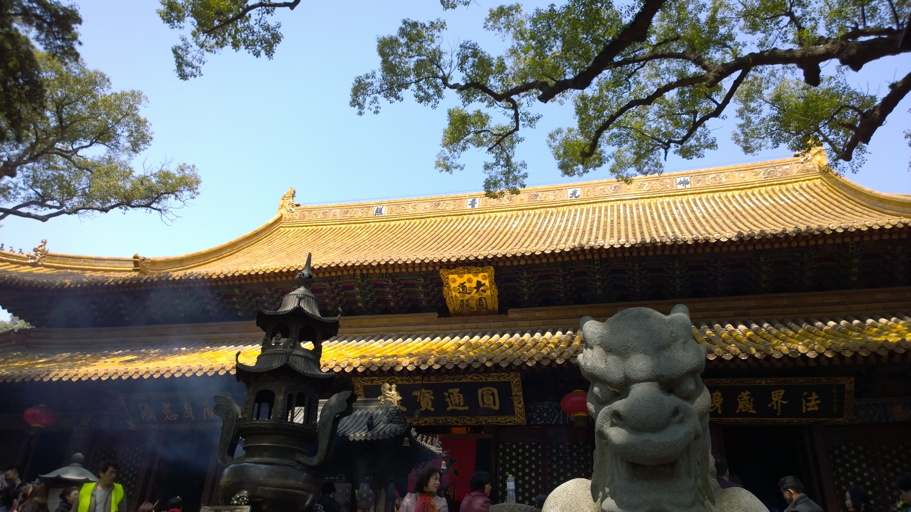 The main building of the Puji Temple in Putuoshan, China